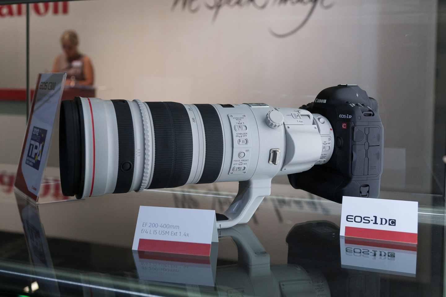 Canon EF 200-400mm f/4 L IS USM Ext 1.4x and Canon EOS 1D C as shown at photokina 2012